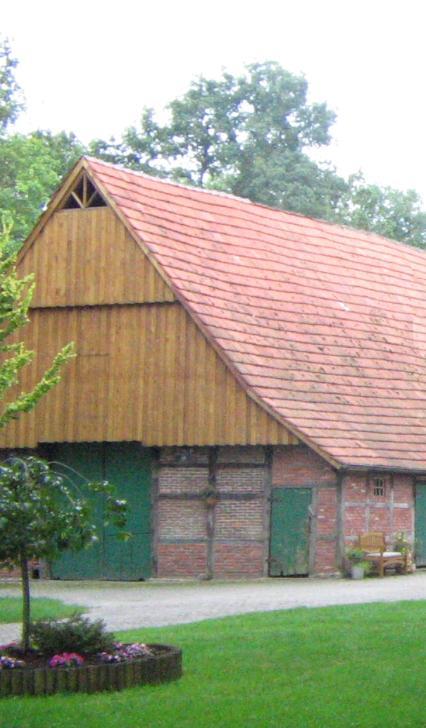 Oldest building in Twist, ca. 1650